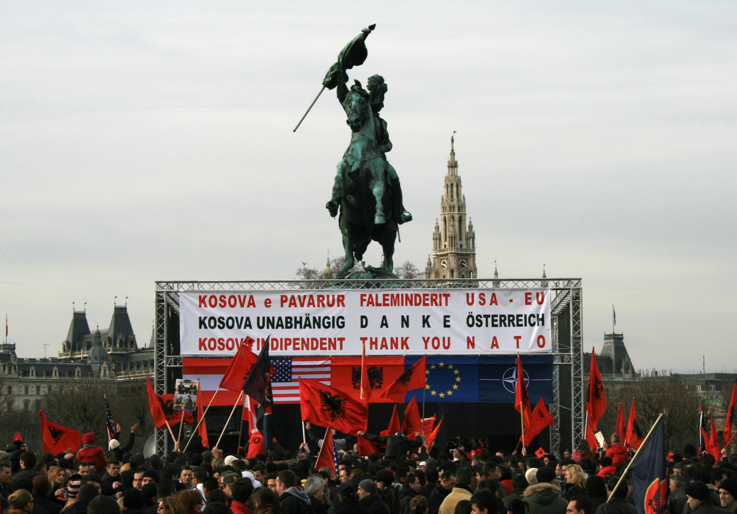 Celebration of the declaration of independence of the Kosovo in Vienna